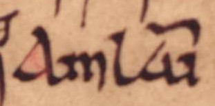 An excerpt from folio 36v of Oxford Bodleian Library MS Rawlinson B 489 (the Annals of Ulster). The excerpt refers to Amlaíb mac Lagmainn, a possible son of Lagmann mac Gofraid.